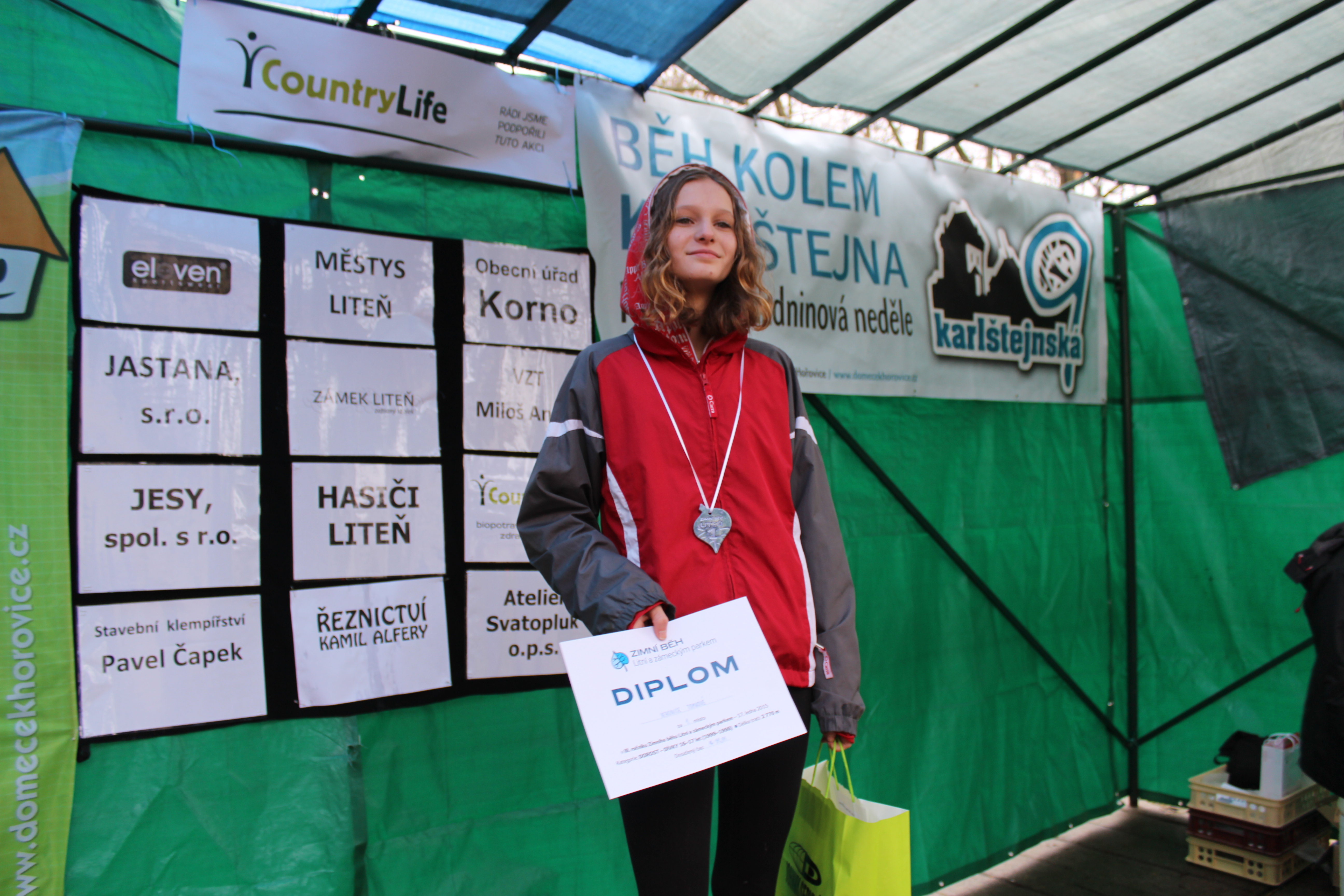 Zimní běh Litní